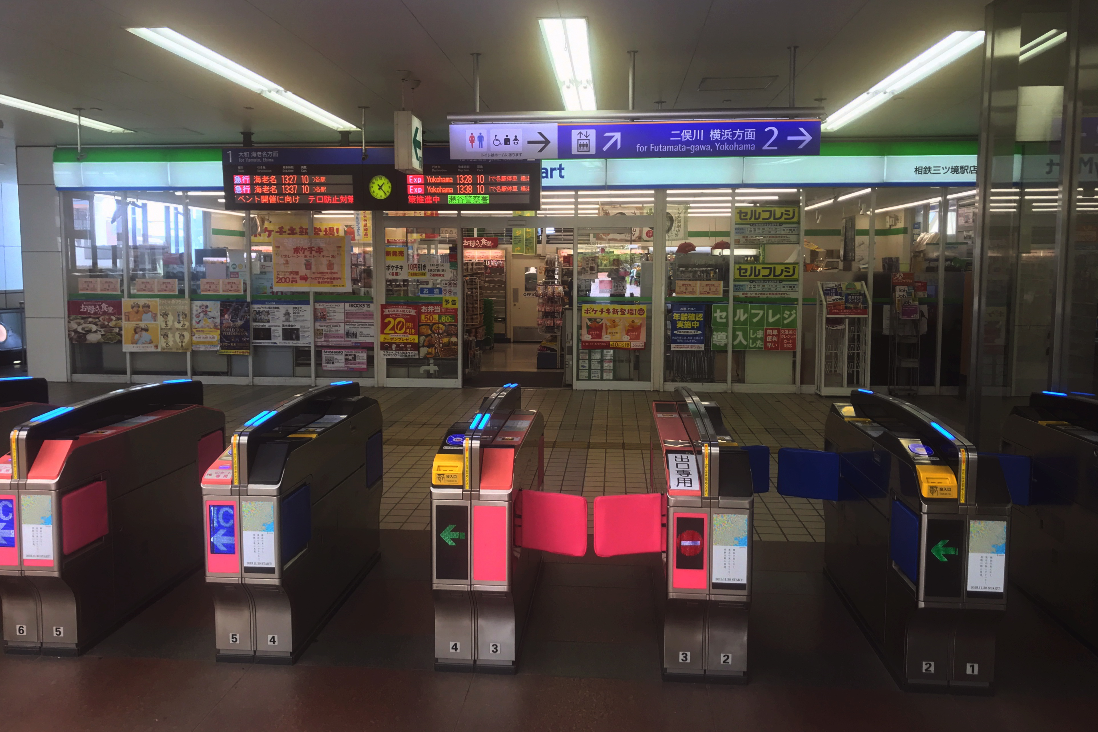 The ticket gate of Mitsusakai station and the Family Mart Sotetsu Mitsukyo shop.